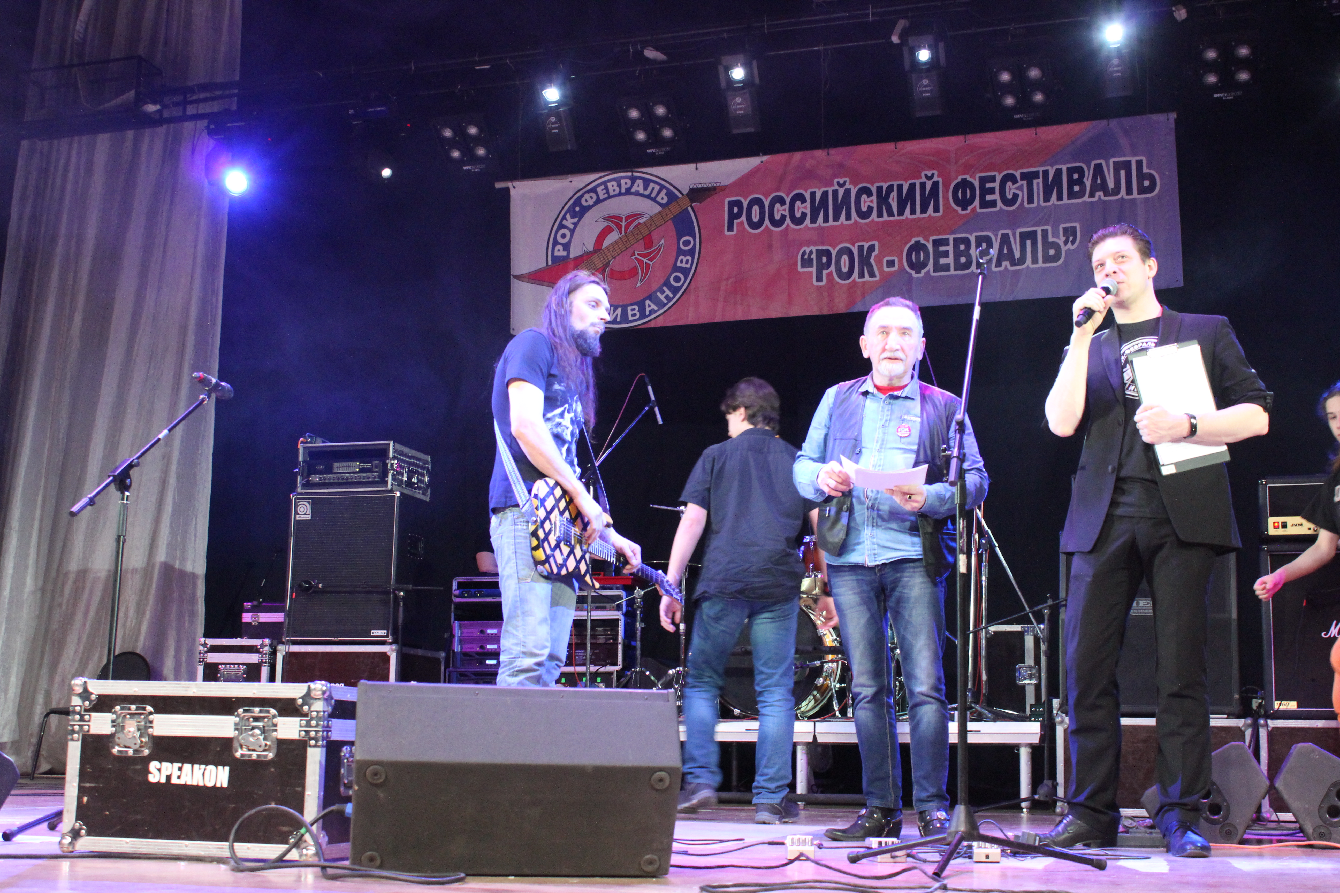 Директор фестиваля Николай Хомский (в центре) вручает диплом группе" Флюиды варвара".